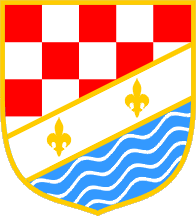 Coat of Arms Posavina